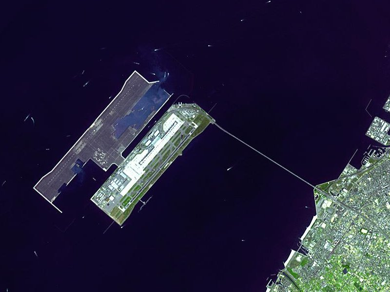 Satellite image of Kansai International Airport in Osaka Bay in Japan. This is a closeup - for an overview image showing the airport on its artificial island in the bay, see Image:Wfm kansai overview.jpg According to the original name of the file, the photo was taken in February 2003.